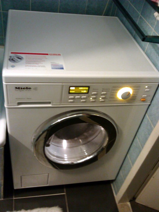 Washdryer of Miele